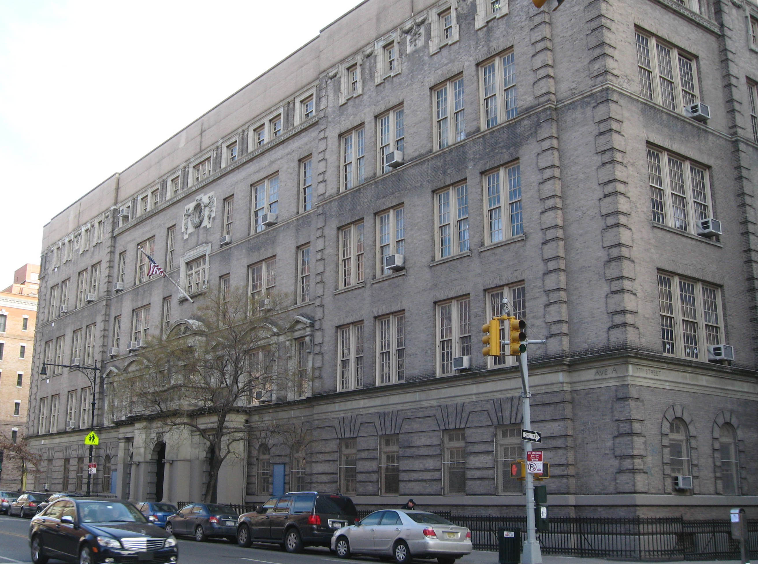 Looking northeast across York Avenue and 77th Street at P.S. 158, the Bayard Taylor School, on a partly cloudy midday.